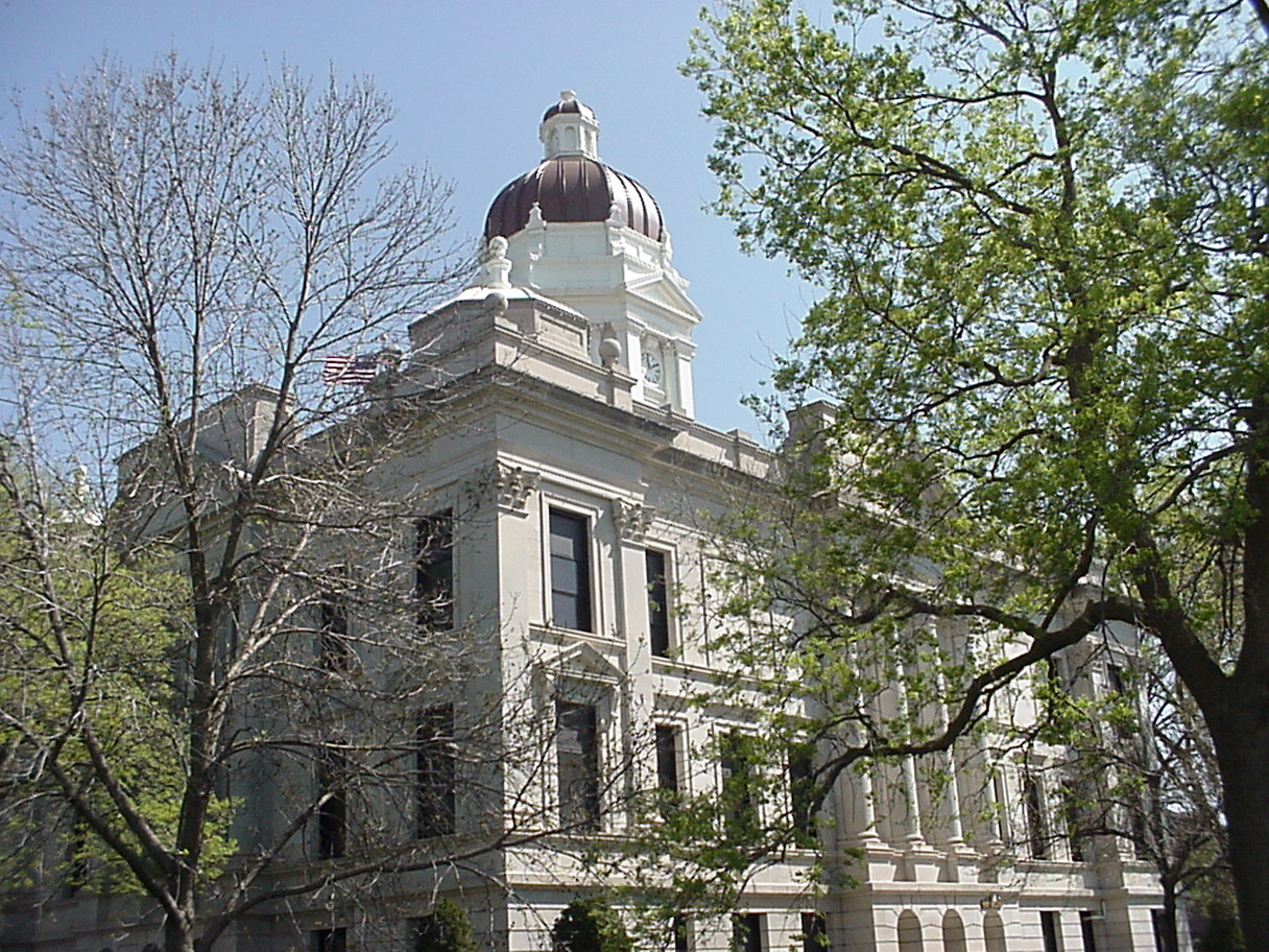 Exterior of the Seward County Courthouse, located on Courthouse Square in downtown Seward, Nebraska, United States. Built in 1905, the courthouse is listed on the National Register of Historic Places, and it is part of the Register-listed Seward County Courthouse Square Historic District.